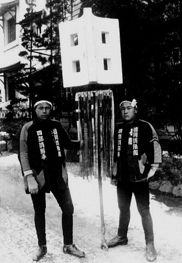 Morioka Shobogumi members holding a Matoi